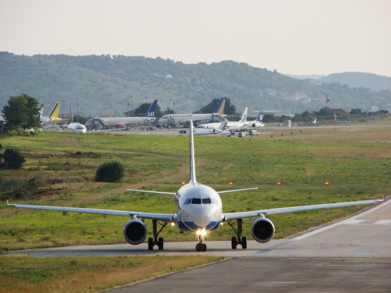 Croatia Airlines at Split Airport, Airbus A320